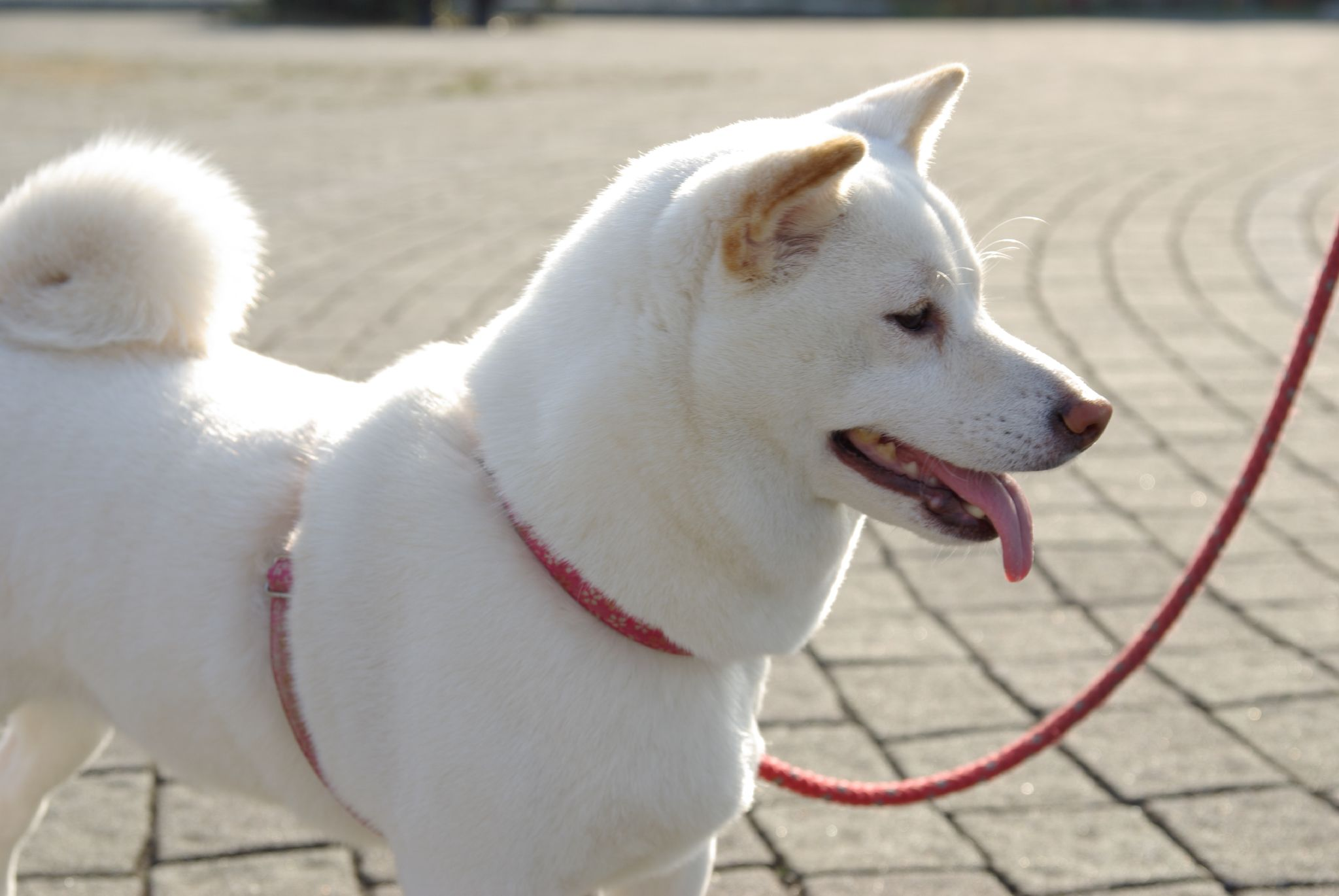 A "white" (also called "cream") Shiba Inu, which is a non-standard colour according to all major kennel clubs.